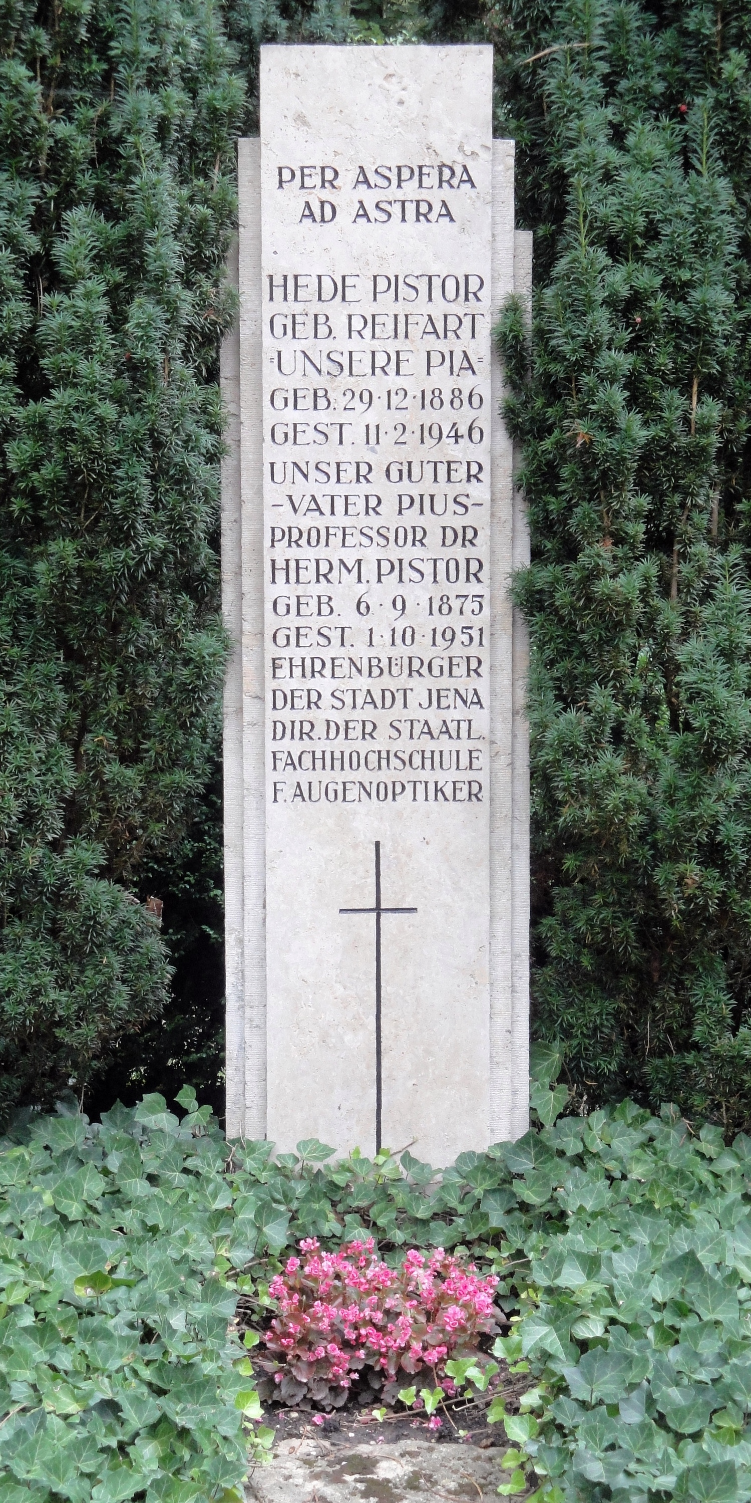 Grave of Hermann Pistor in Jena